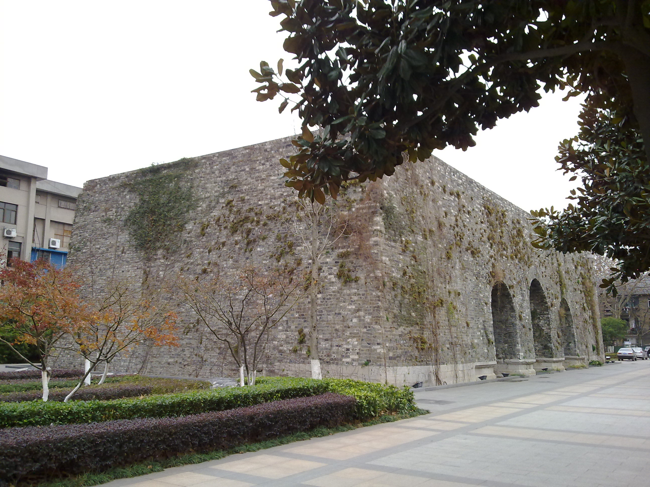 Xi An Men Gate of Nanjing Ming Palace